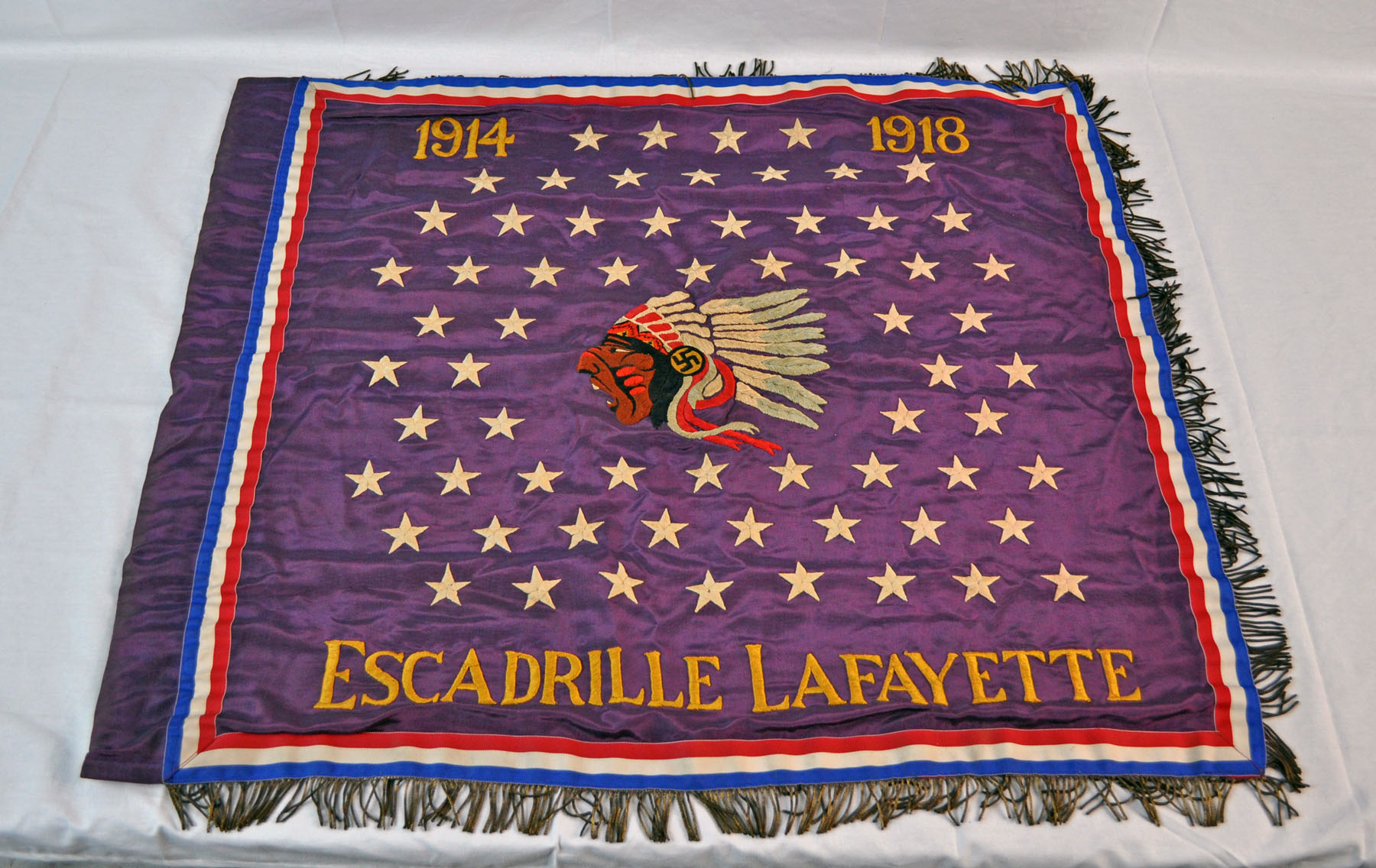 During World War I, many Americans citizens volunteered with the Lafayette Flying Corps to serve as volunteer pilots and observers in French combat squadrons. In April 1916, the most famous American squadron, N124 "Escadrille Americaine," was established. Once America entered the war in 1917, many of the American volunteers were folded into the Army Air Service's 103rd Aero Squadron.